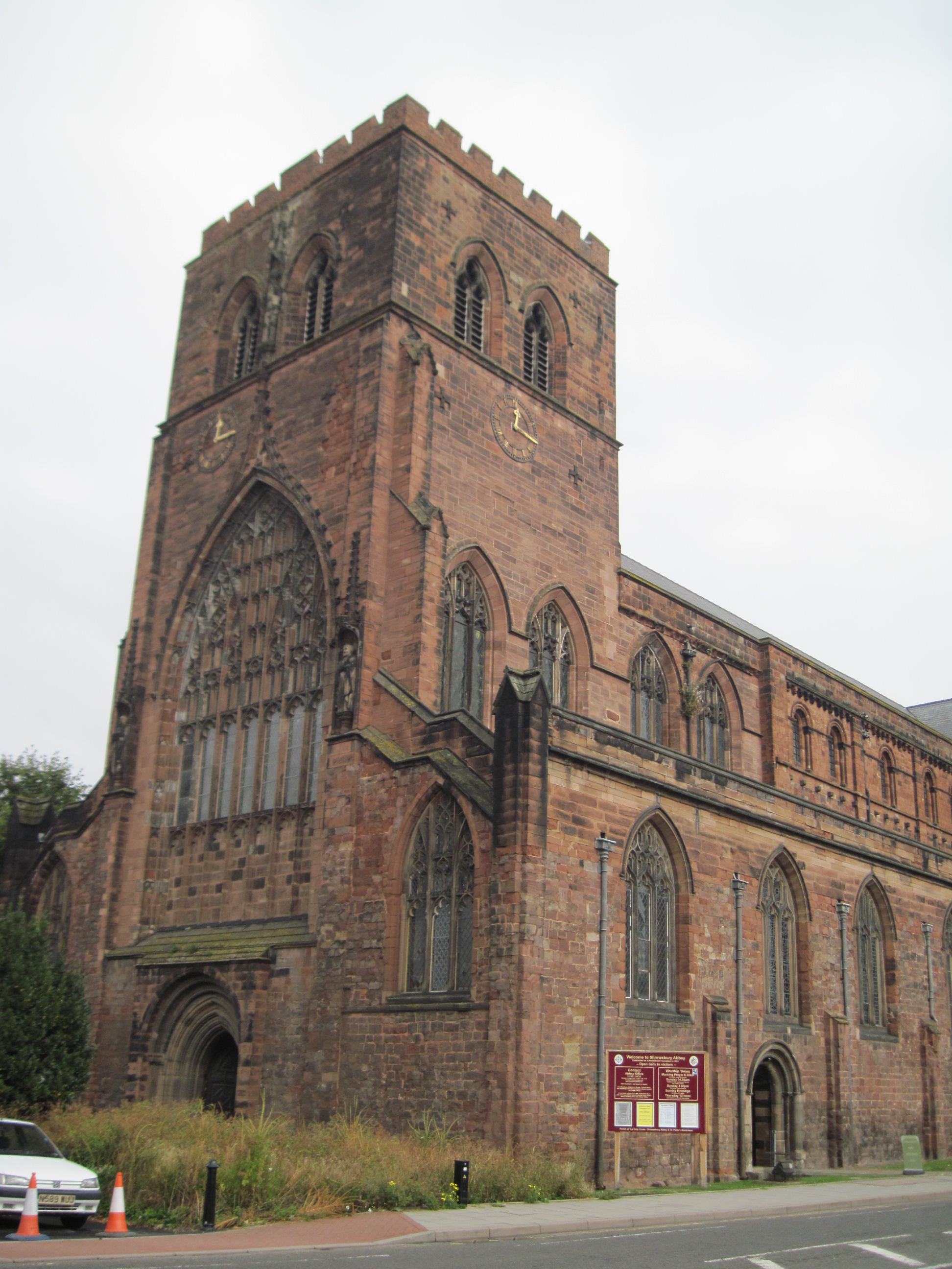 Abbey Church of the Holy Cross, Shrewsbury Wikidata has entry Q2507390 with data related to this building.